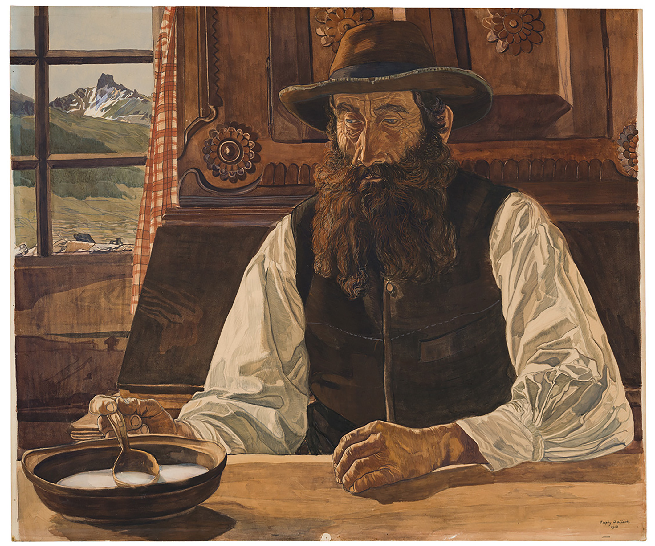 Raphy Dallèves, L'homme à l'écuelle, 1910, gouache, aquarelle et crayon sur carton,76.5 x 95 cm, Musée d'art du Valais